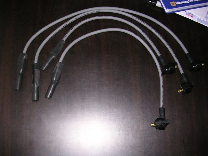 KA24 spark plug wires